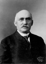 From the Library of Congress